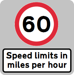 The sign seen when driving from Ireland to Northern Ireland informing drivers of the change to miles per hour speed limits